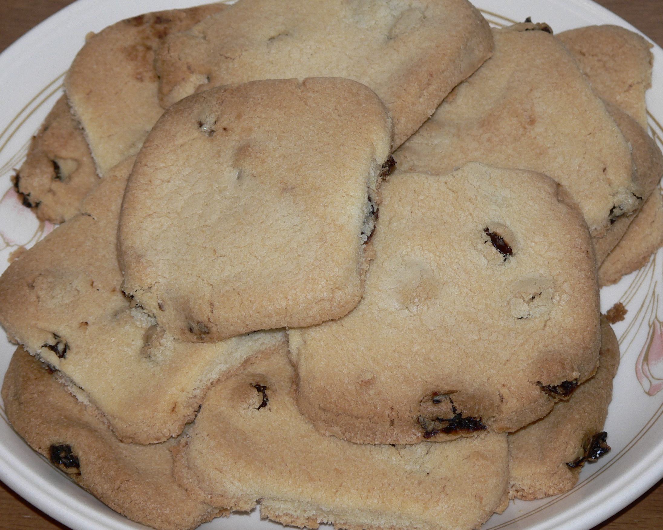 Shrewsbury Biscuits ... Fruit Shrewsburys, to be precise.